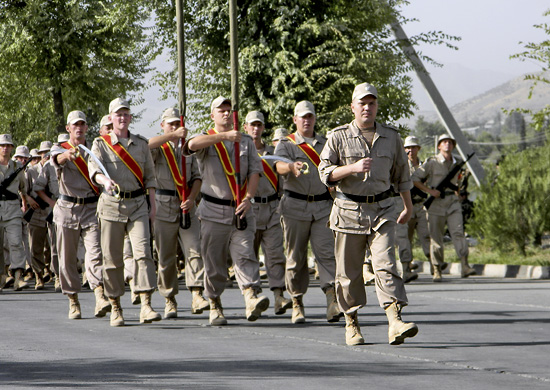 Russian soldiers at the general rehearsal for the Tajik independence day parade in Dushanbe.